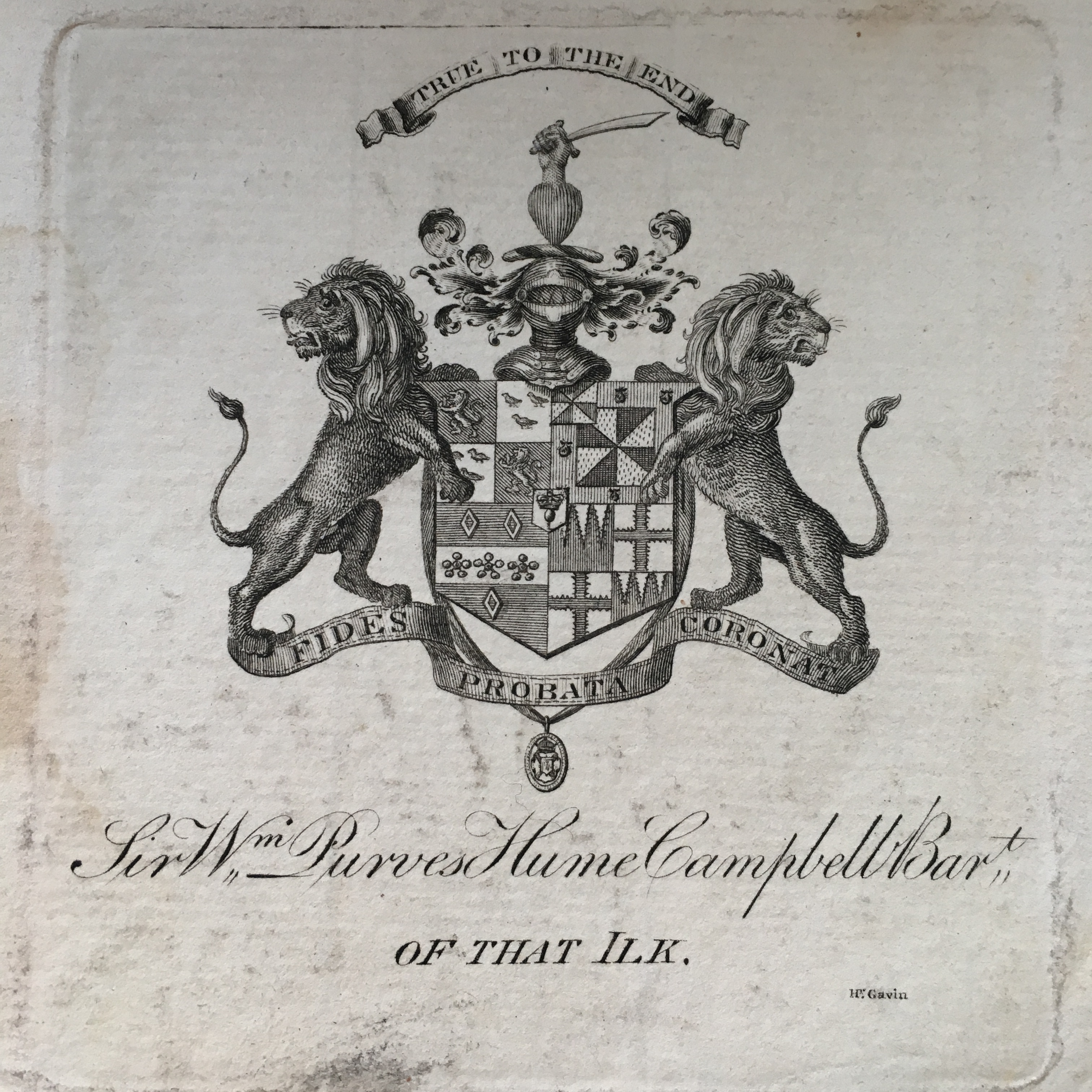 Bookplate of Sir William Purves-Hume-Campbell, 6th Baronet (1767–1833). Quarterly, 1. quarterly, i. and iiii., vert, a lion rampant argent (Hume) ; ii. and iii., argent, three popinjays vert (Pepdie) ; 2. gyronny of eight or and sable, within a bordure gules, charged with eight scallops of the first, a canton gyronny of the third and ermine (Campbell of Cessnock) ; 3. azure, on a fesse between three mascles argent, as many cinquefoils of the first (Purves) ; 4. quarterly, i. and iiii., gules, three piles engrailed argent (Polwarth) ; ii. and iii., argent, a cross engrailed azure (Sinclair of Hermiston), over all, en surtout, an escutcheon argent, charged with an orange slipped and imperially crowned proper (an honourable augmentation granted by Royal Warrant in 1690). Crest—On a wreath of his liveries, a dexter arm issuing from a heart, and grasping a scimitar proper. Motto—"Fides probata coronat."